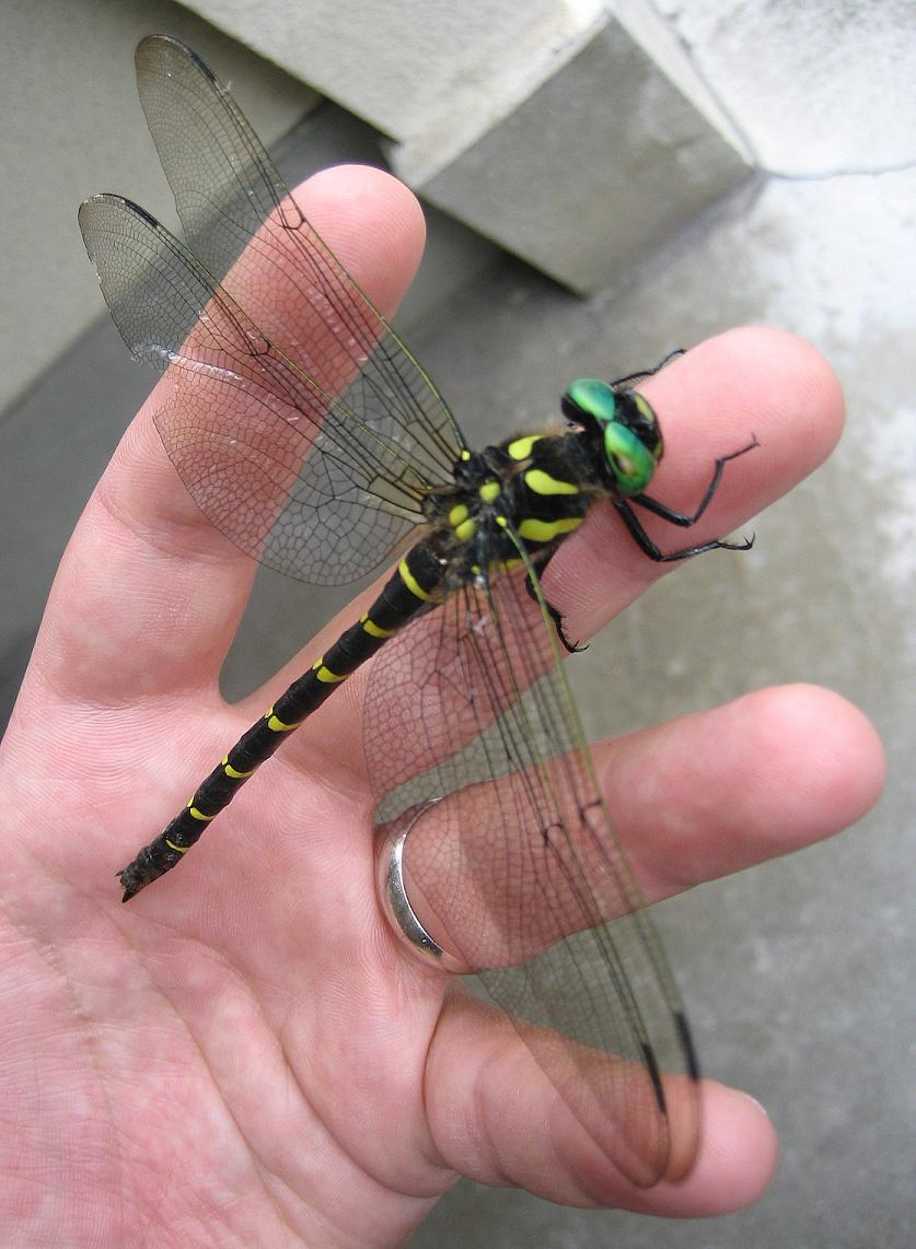 A picture of Anotogaster sieboldii resting on a person's hand in Aizu-wakamatsu, Fukushima Prefecture, Japan. Picture was taken with a Canon Power Shot SD450 Digital Elph camera and modified using a Paint Shop program on a laptop computer.